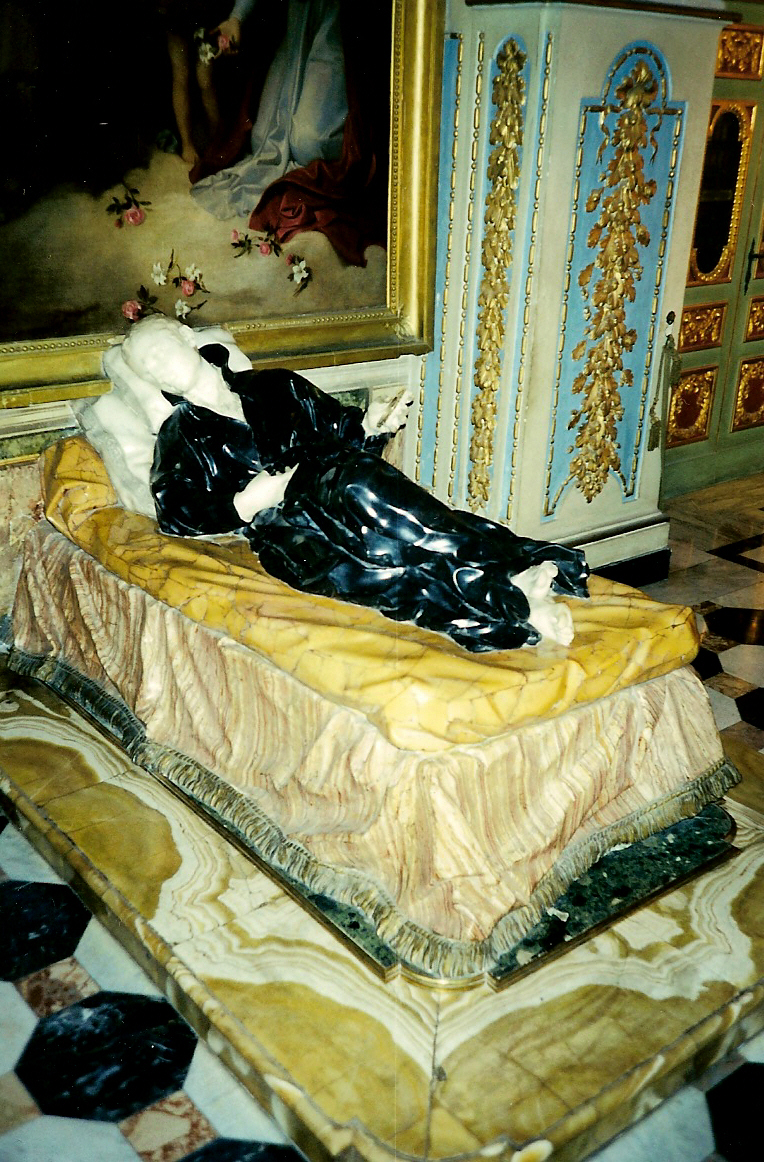 Stanislas Kostka on his deathbed